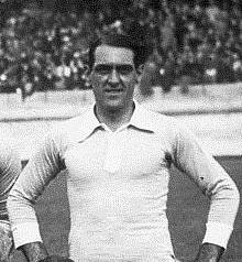 The Uruguay national football team that won the 1928 Olympic tournament. Standing: Píriz, Nasazzi, Arispe, Mazali, Gestido and Fernández. Bended: Urdinarán, Castro, Petrone, Cea, Cámpolo and Ernesto Figoli (assistant coach).